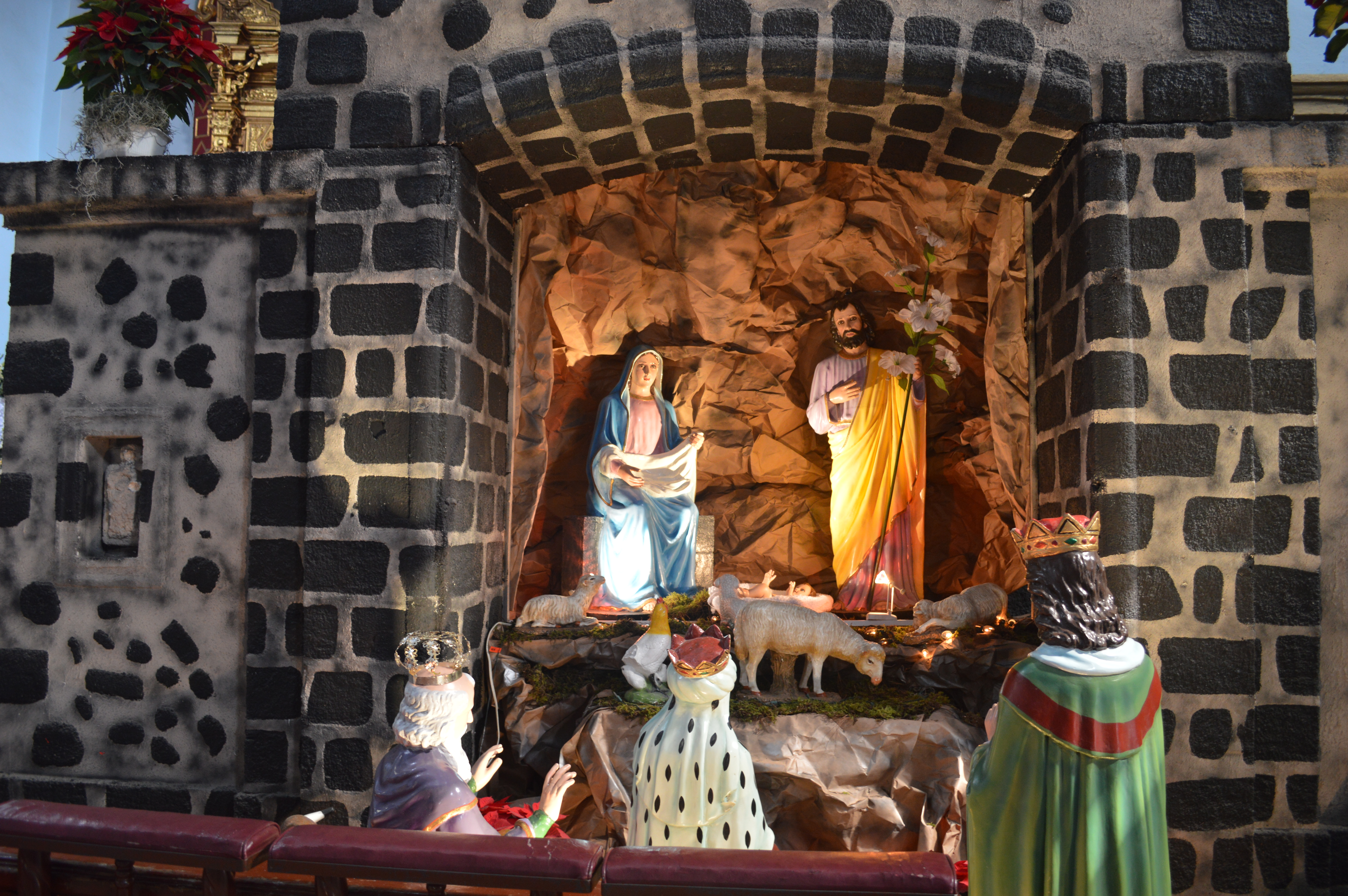 Nativity scene inside the parish of San Pedro Tlahuac in Mexico City